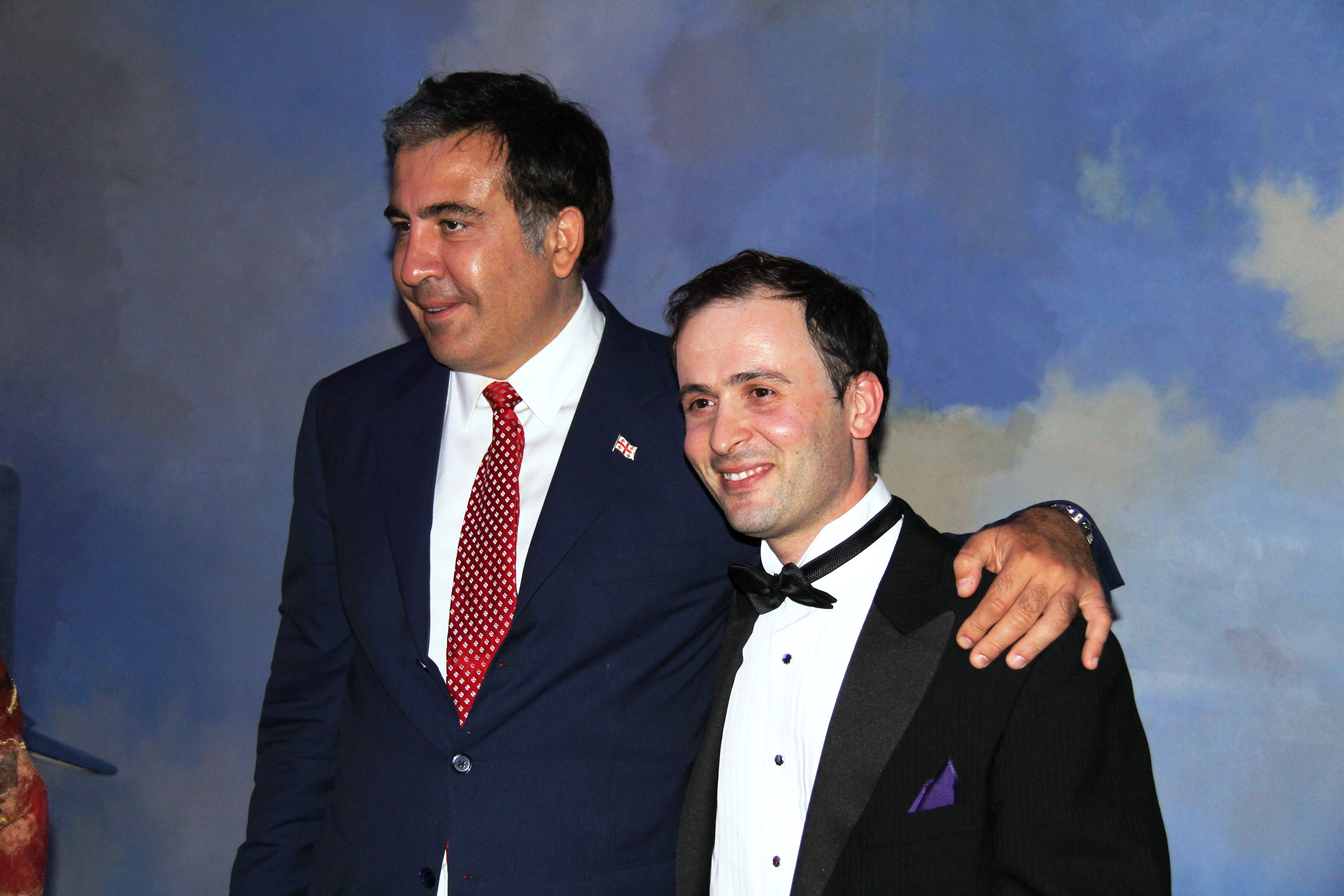 Georgian President Mr. Mikheil Saakashvili with pianist Giorgi Latsabidze